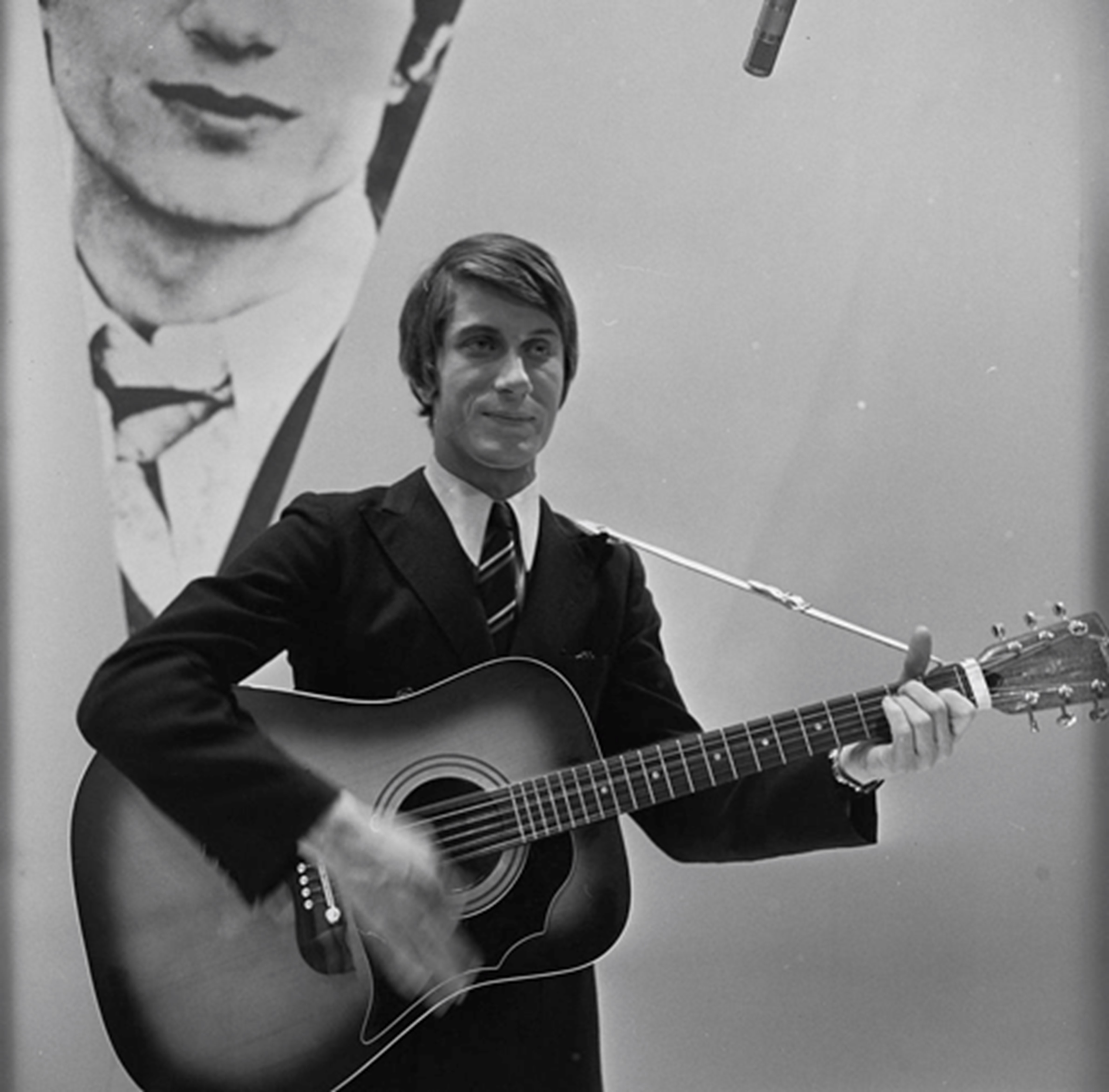 Jacques Dutronc performing the songs "Et moi et moi et moi" and "Les playboys" in Dutch TV programme Fanclub. Registered 12 Nov. 1966, broadcast 18 Nov. 1966.